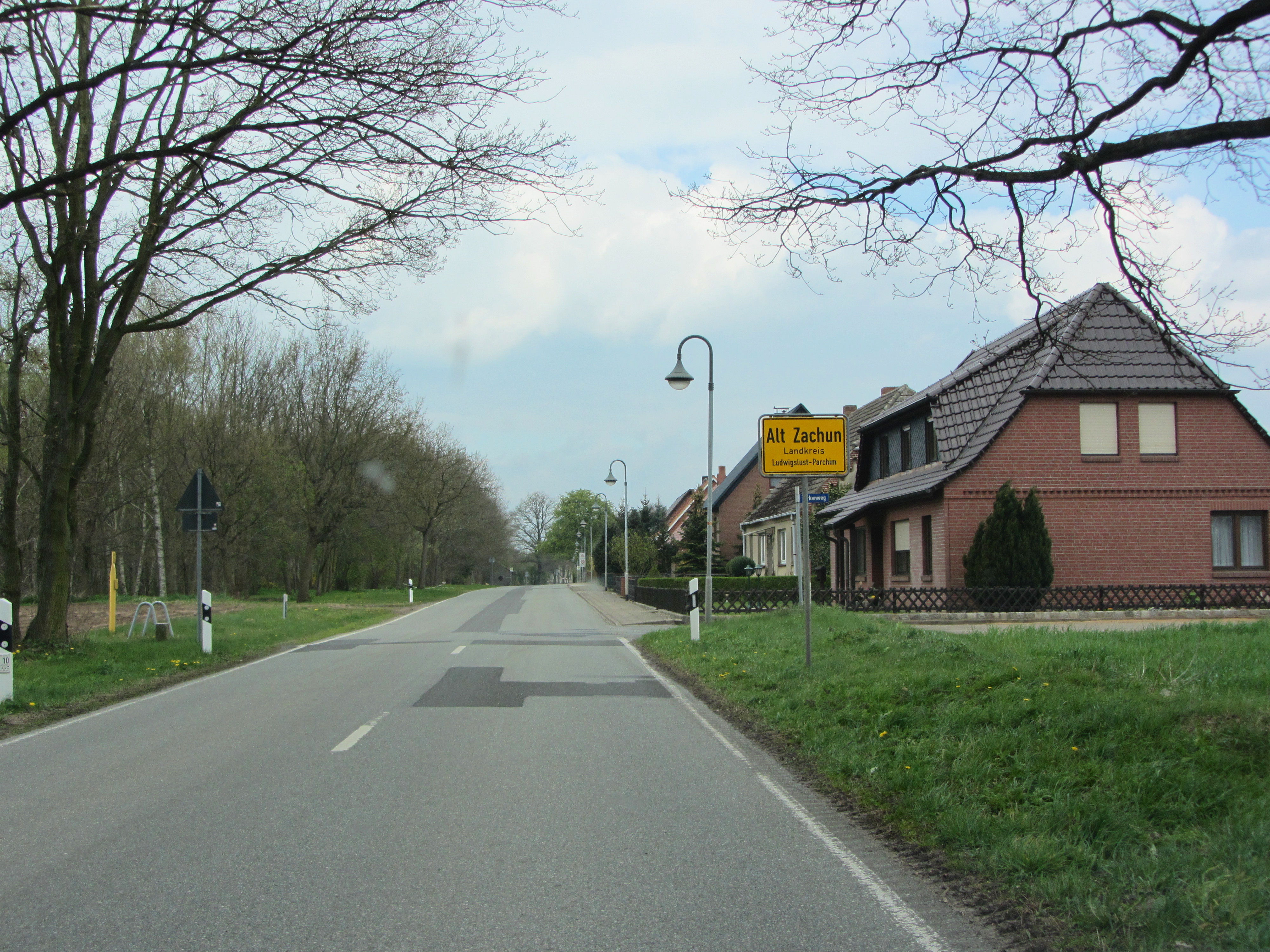 Entry of Alt Zachun, district Ludwigslust-Parchim, Mecklenburg-Vorpommern, Germany